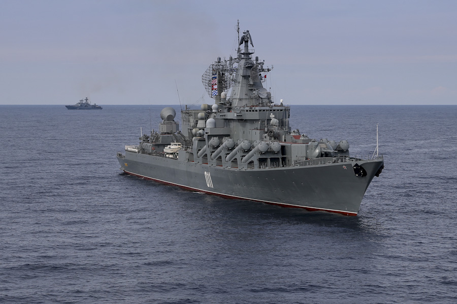 Permanent group of the Russian Navy in the Mediterranean Sea provides air defence in Syria